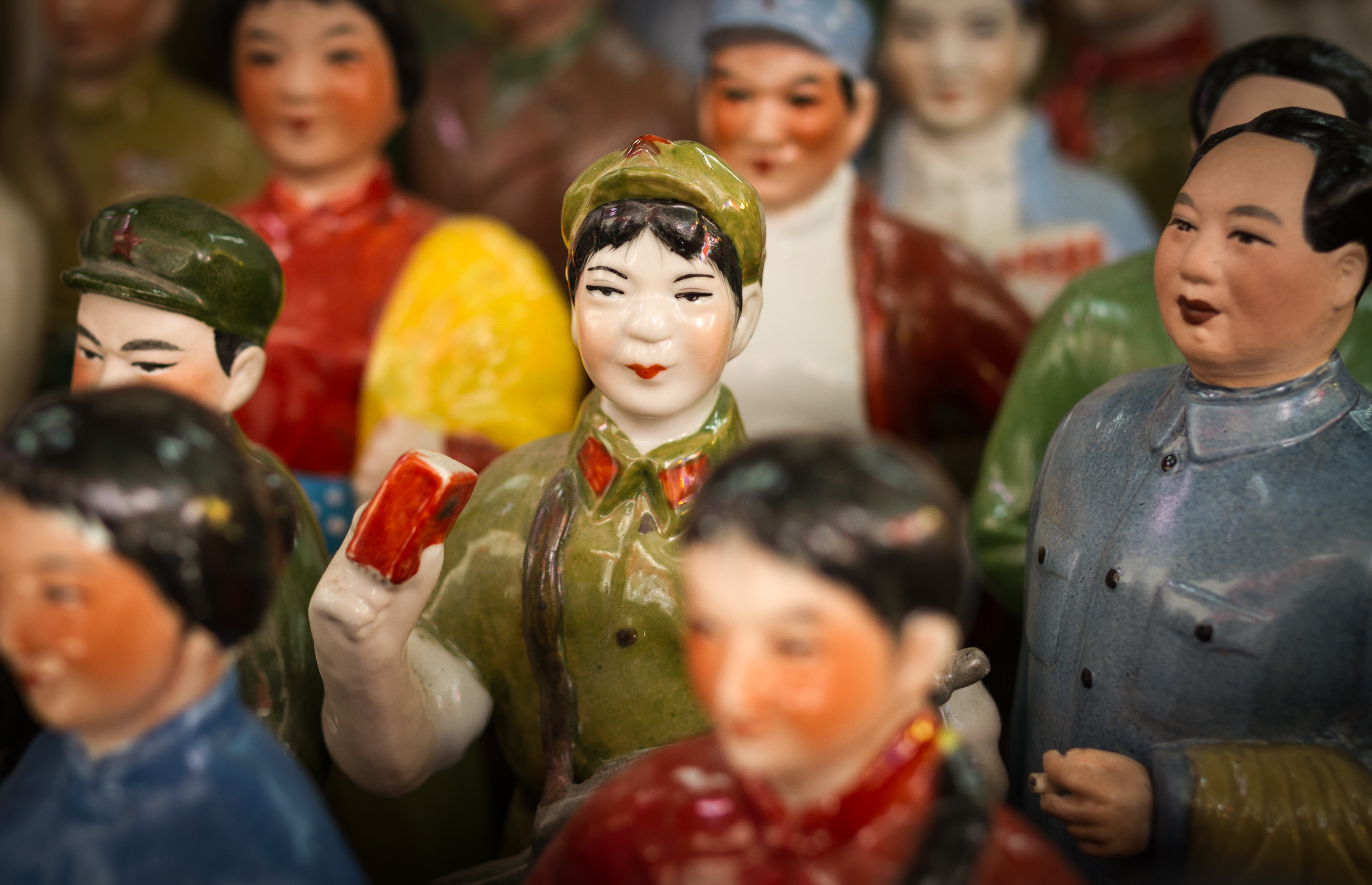 Porcelain statues at Cat Street Antiques Market, Hong Kong. The statue in the center of the photo casts a light on how femininity was perceived in Communist China in the late 1960s.